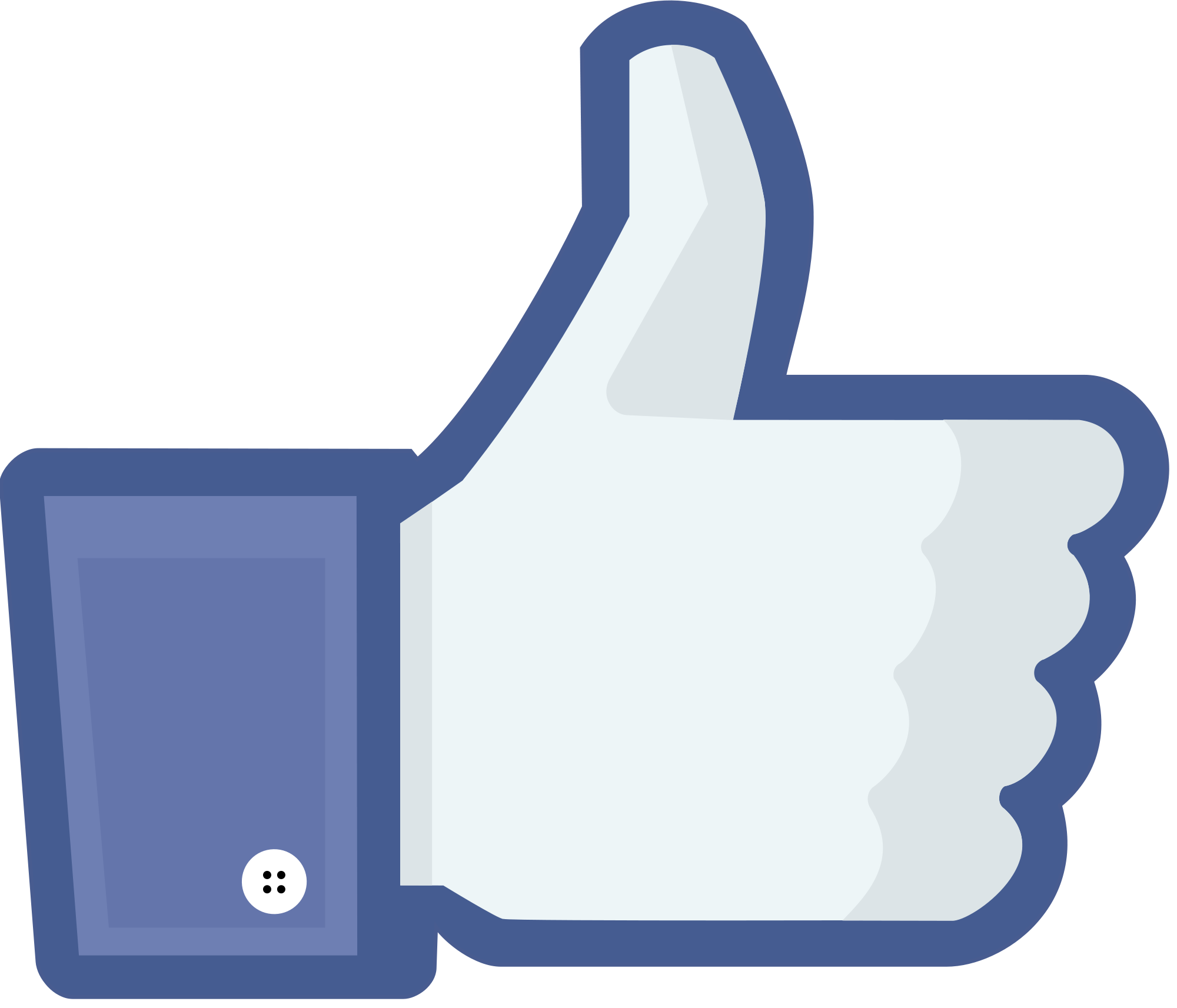 The thumb graphic from the Facebook "like" button.